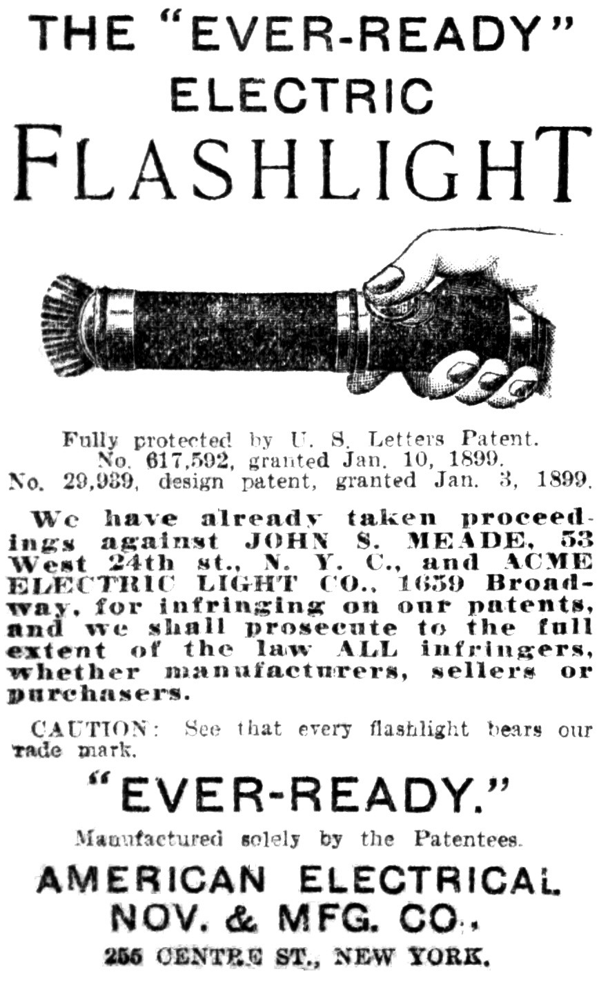 Ever-Ready flashlight advertisement